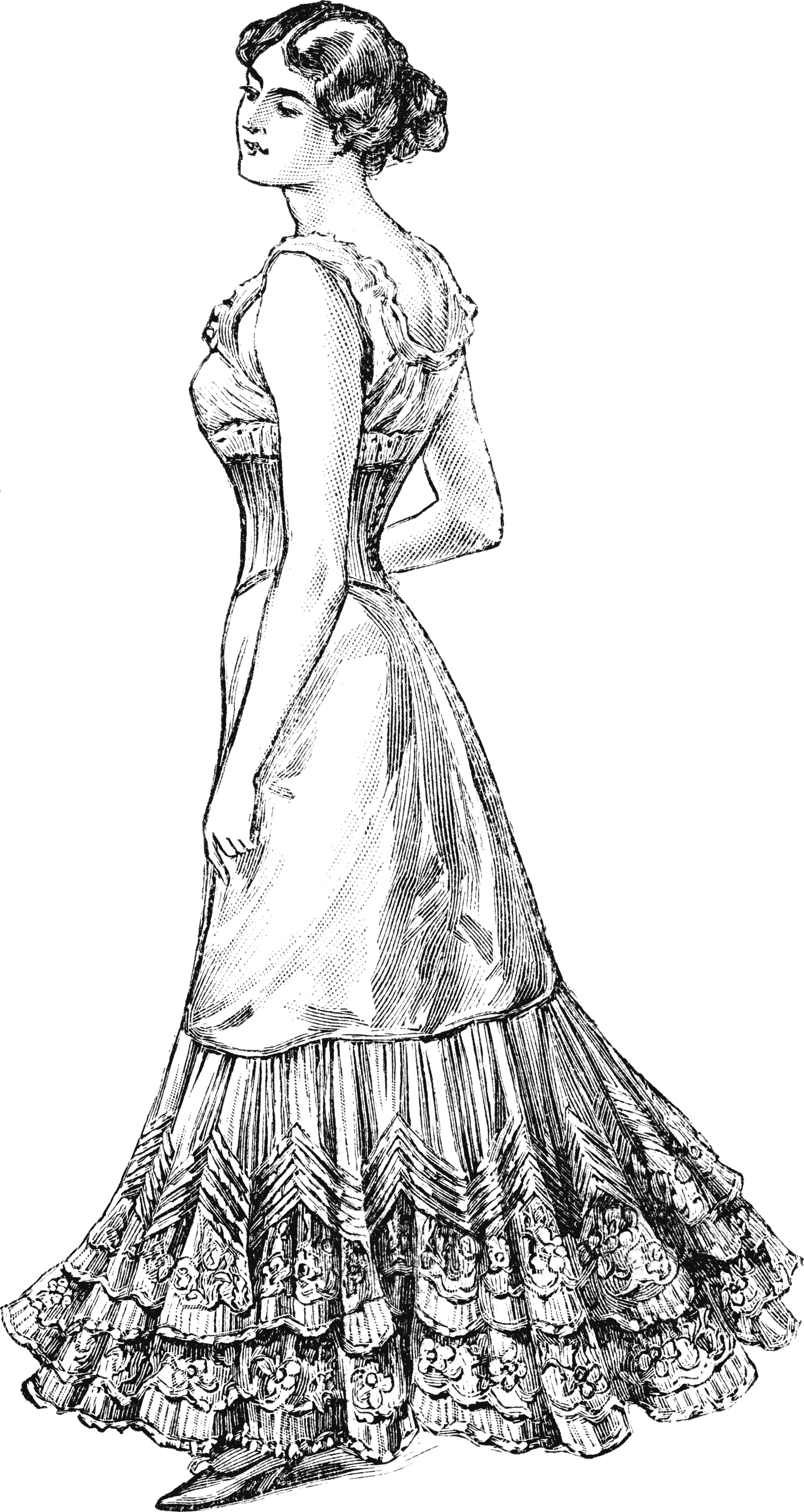 3337 JUPON black taffeta and light shades, pleated ruffle trimmed lace and ribbon 39. "Lined 42."